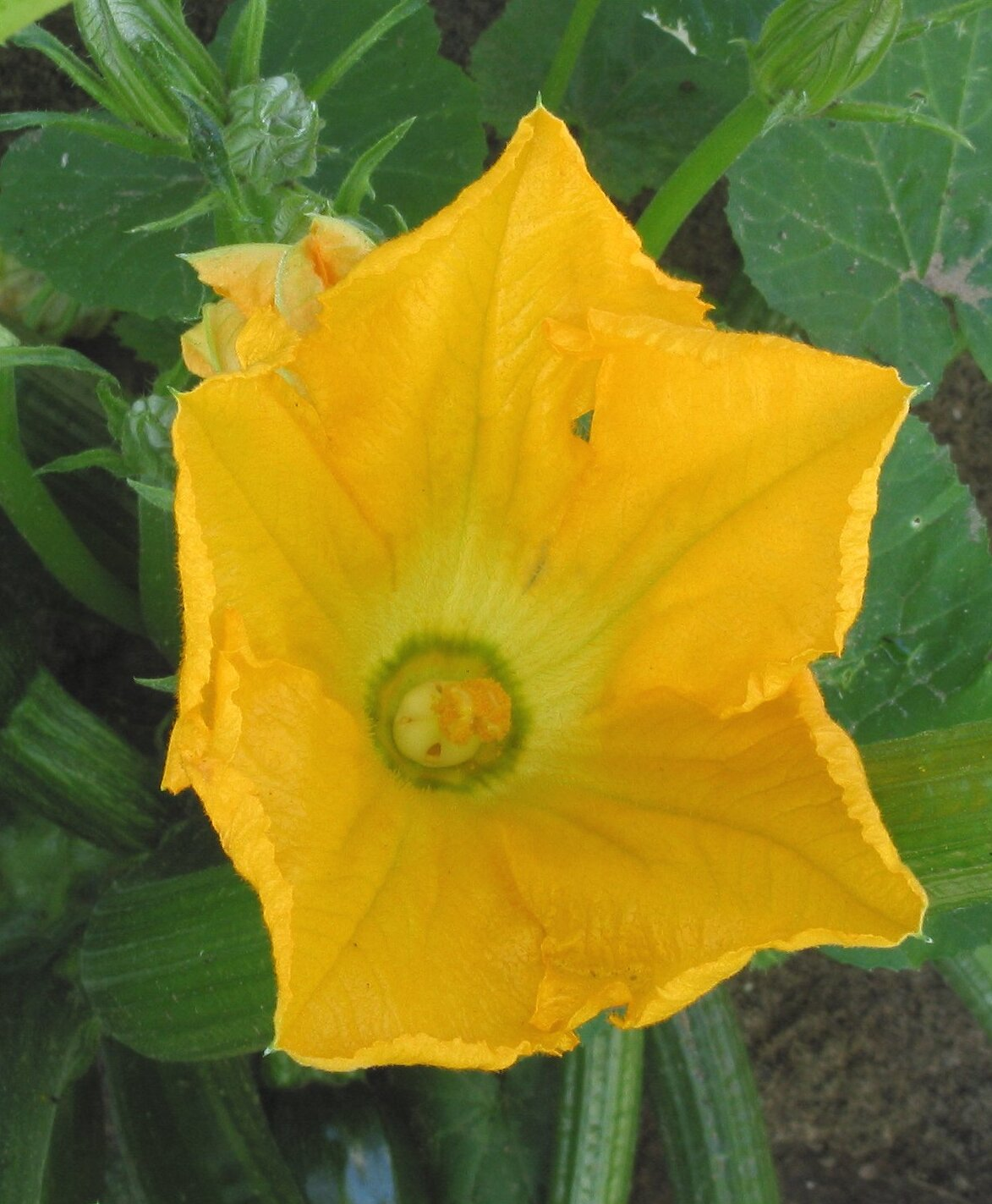 Courgette male flower